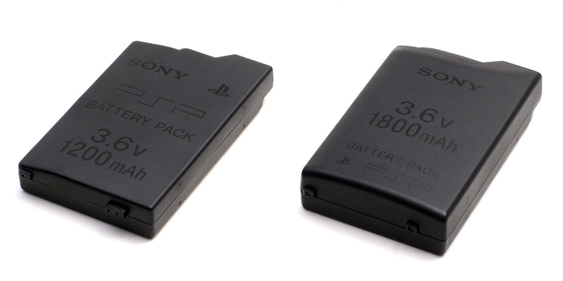 Two different standards of Sony PSP batteries. The larger belonging to the PSP-1000 and the smaller to PSP-2000 & 3000.